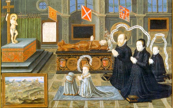 Memorial to Henry Stuart, Lord Darnley (1545-1567) depicting Darnley's son, King James VI of Scotland praying for vengeance for Darnley's murder.